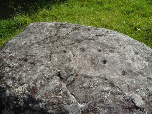 An Iron Age sacrificial stone at Retulansaari, Tyrväntö, Finland. The cups are in the formation of the Big Dipper.